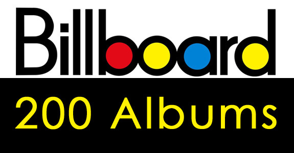 Logo of 200